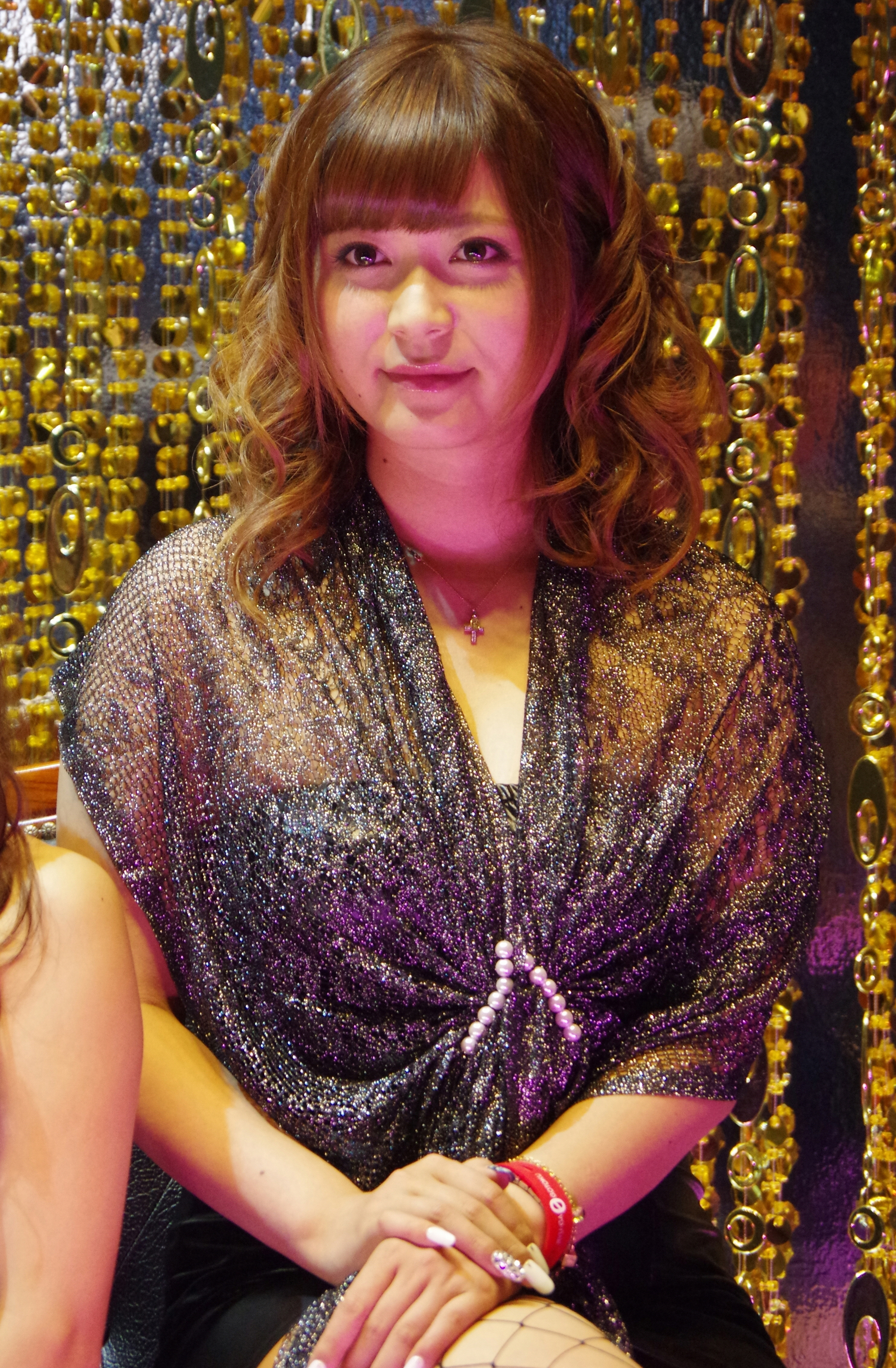 Haruki Satō at Tokyo Game Show 2014